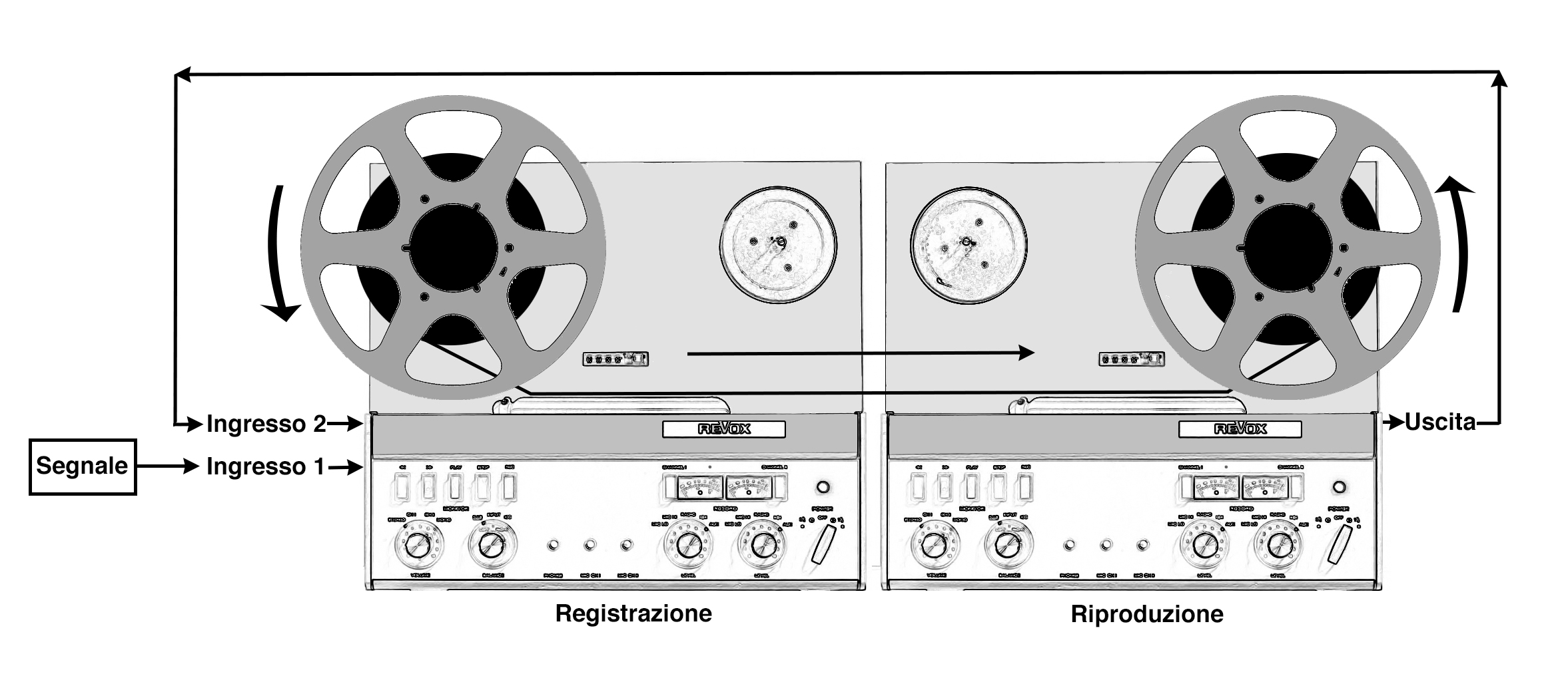 Diagram of the 'Time lag accumulator' presumably invented by Terry Riley and later used by Brian Eno and Robert Fripp (as 'Frippertronics')